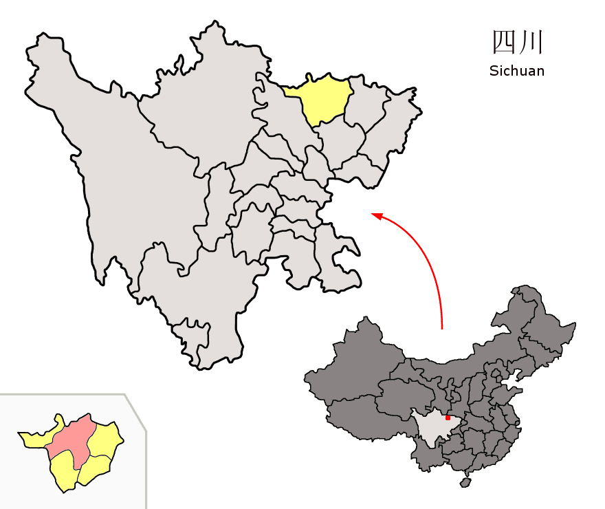 Location of Guangyuan Districts (pink) and Prefecture (yellow) within Sichuan province of China Map drawn in october 2007 using various sources, mainly : Sichuan province administrative regions GIS data: 1:1M, County level, 1990 Sichuan Counties map from